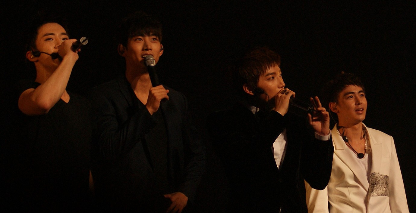 2PM at "Hands Up Asia Tour" in Seoul, 3 September 2011. Left to right: Junho, Taecyeon, Jun.K and Nichkhun